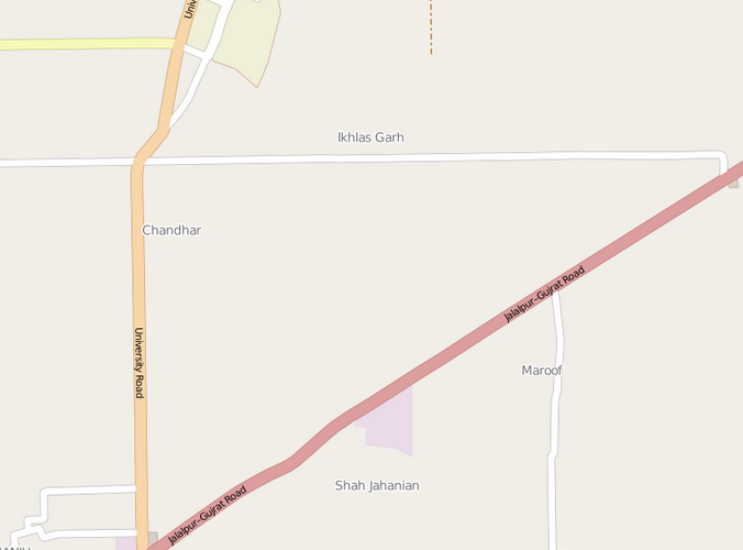 Location of Ikhlas Garh, Chandhar, Shah Jahanian, & Maroof on map